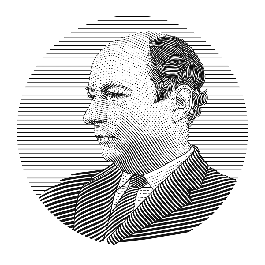 Portrait - engraving of prof. Vassil Yontchev